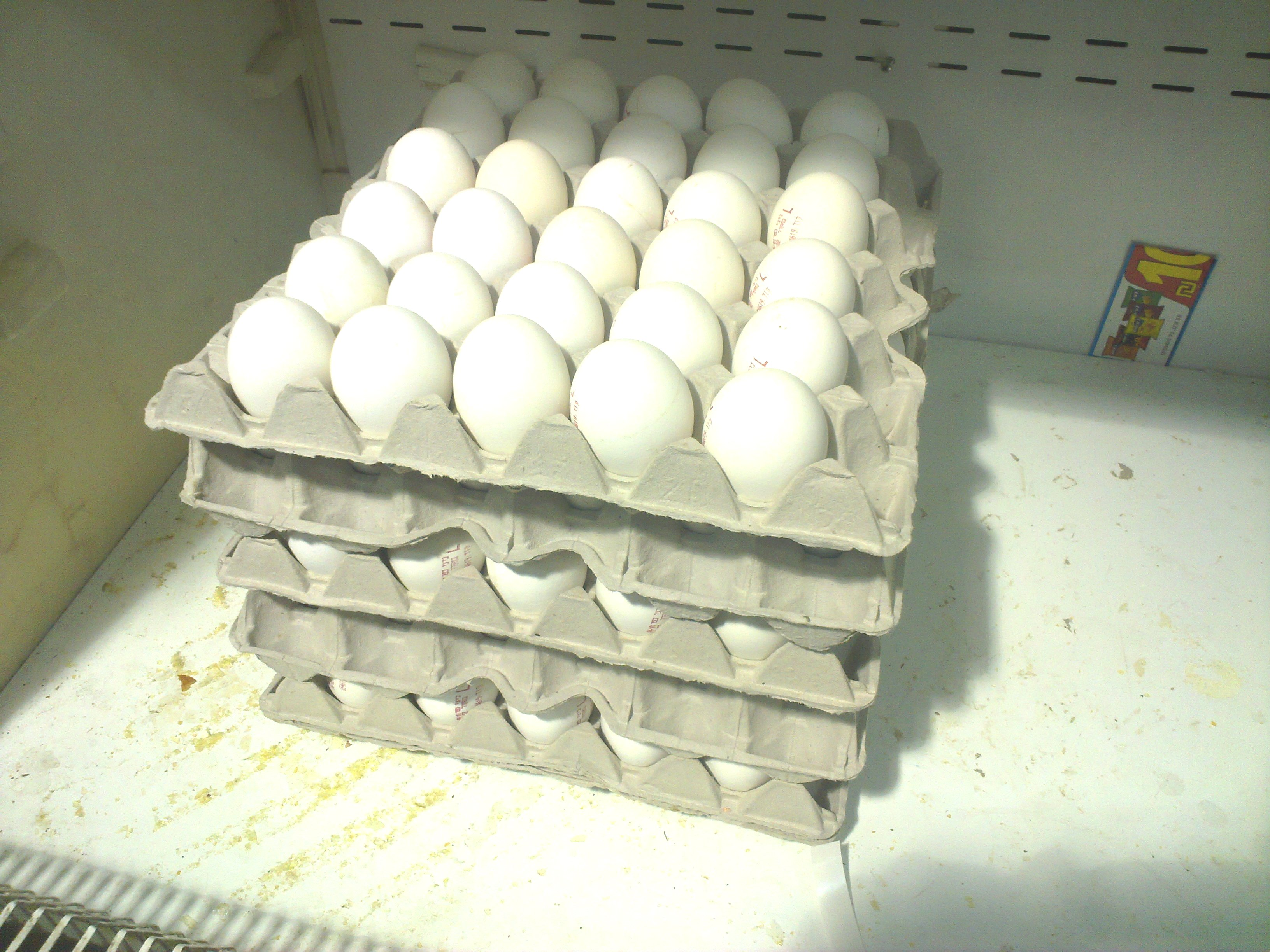 Five standard egg-templates on thirty eggs.